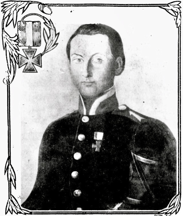 Drawing depicting Charles Henry Wilcken c. 1850, during his service in the in the First Schleswig War (wearing a Prussian Army uniform), published in the Deseret News, 1912